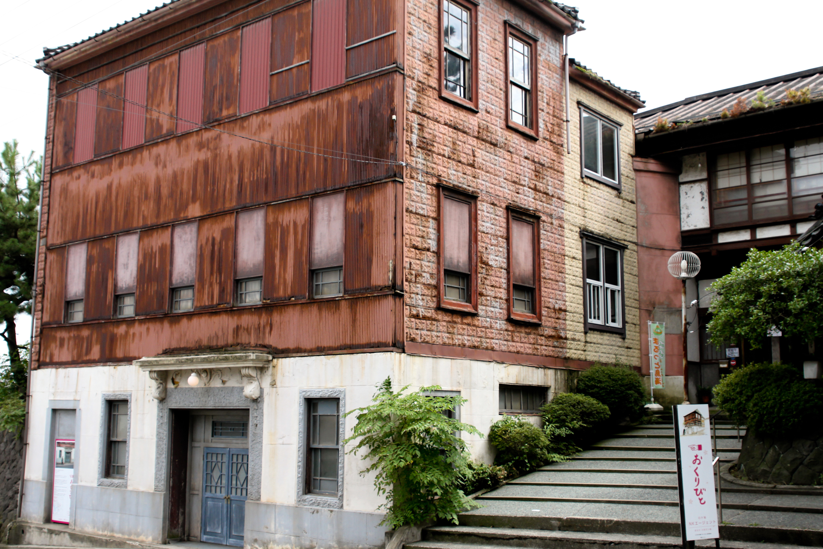 The building used for the NK Agent office in the Japanese film Okuribito (2008). Located in Yamagata.